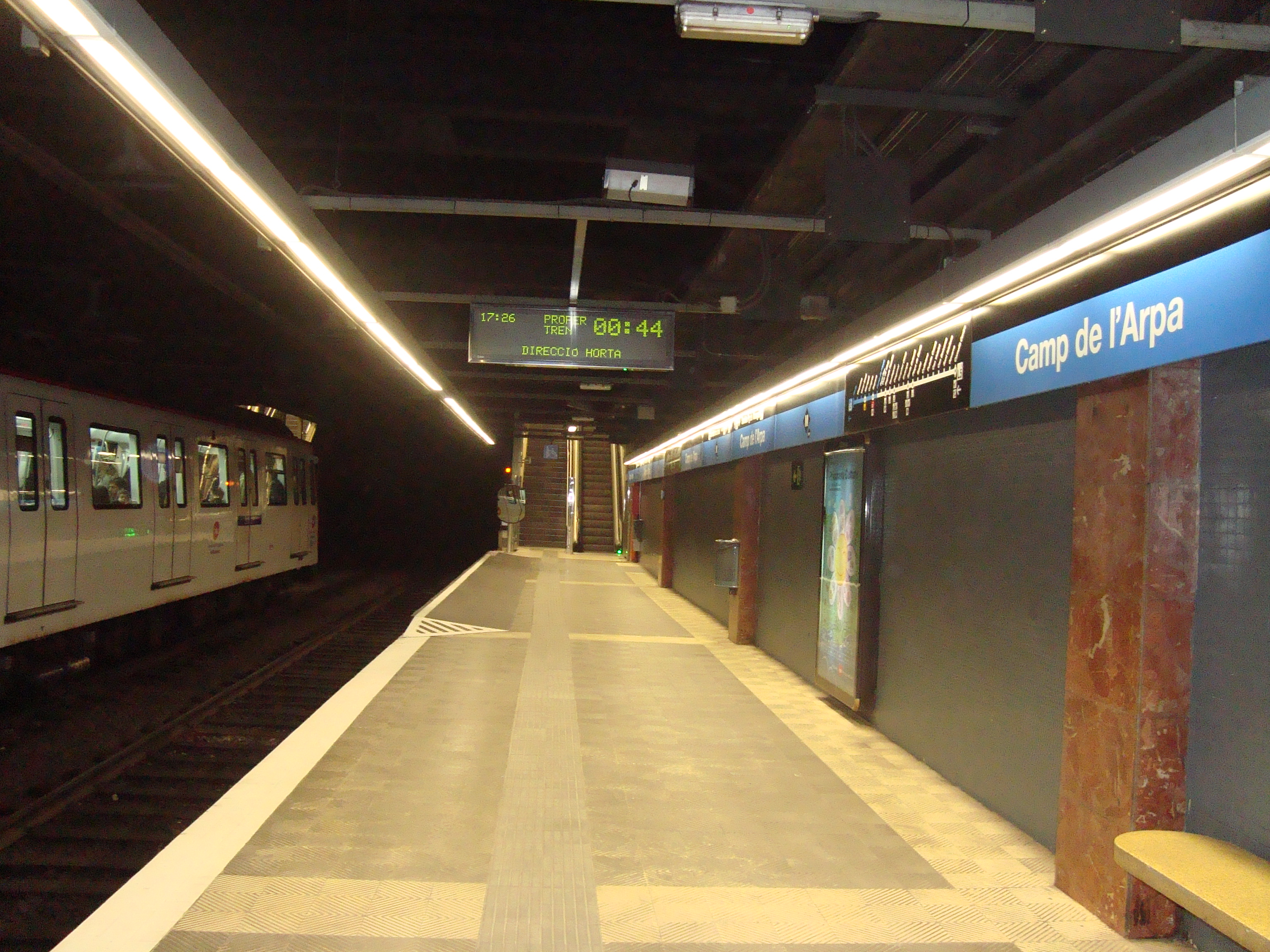 Camp de l'Arpa Station of Barcelona tube.